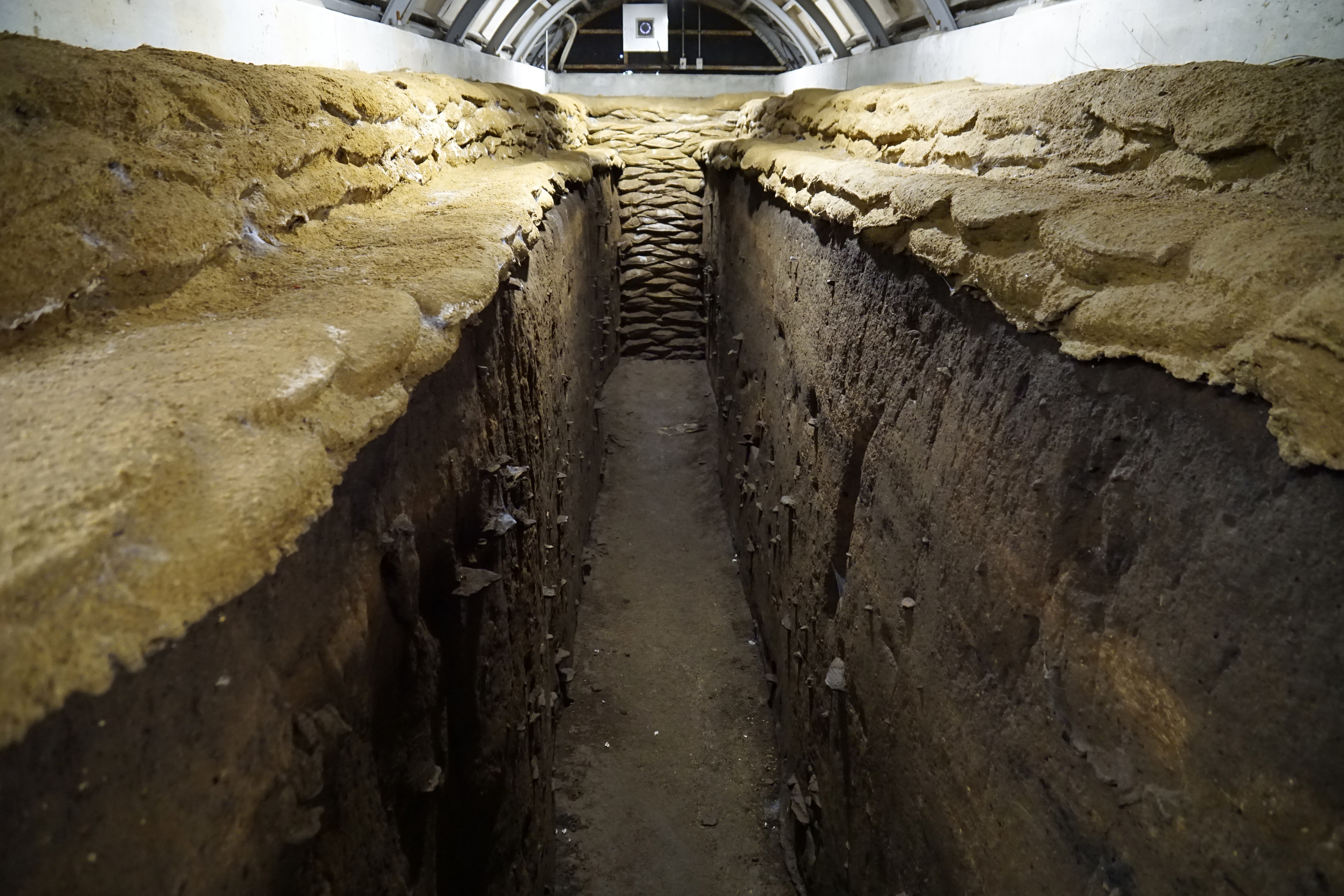 Sannai-Maruyama_site in Aomori, Aomori prefecture, Japan.